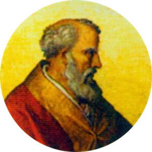 Portait of Pope John XIII in the Basilica of Saint Paul Outside the Walls, Rome